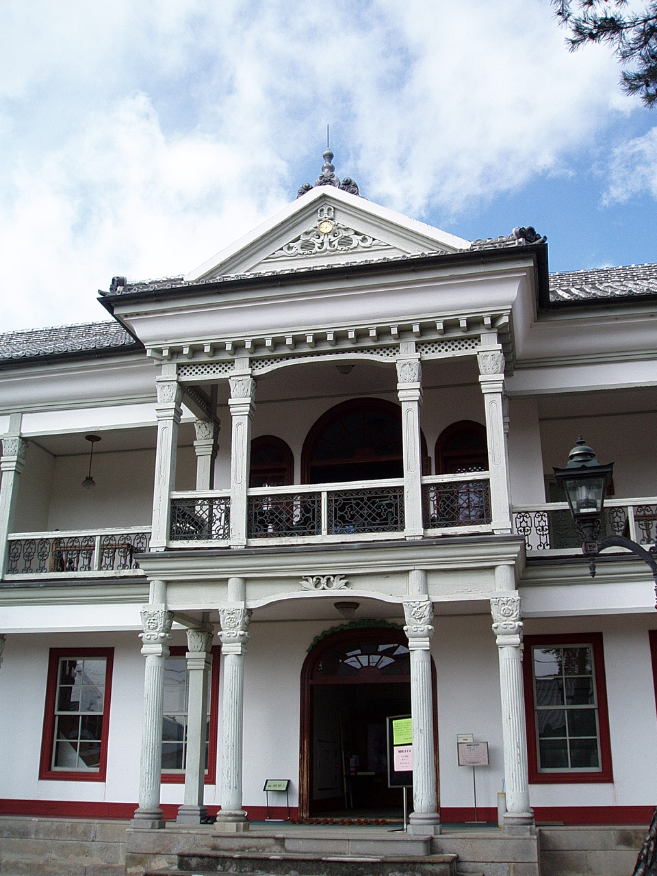 Kiryu Meijikan located in Aioi-cho, Kiryu, Gunma, Japan. Originally built in 1878 (Meiji 11) in Maebashi as the Public Health Bureau of Gunma Prefectural Government. In 1928 removed to this site and used as the village hall of Aioi Village Government (a part of Kiryu City today). An important cultural property of Japan.